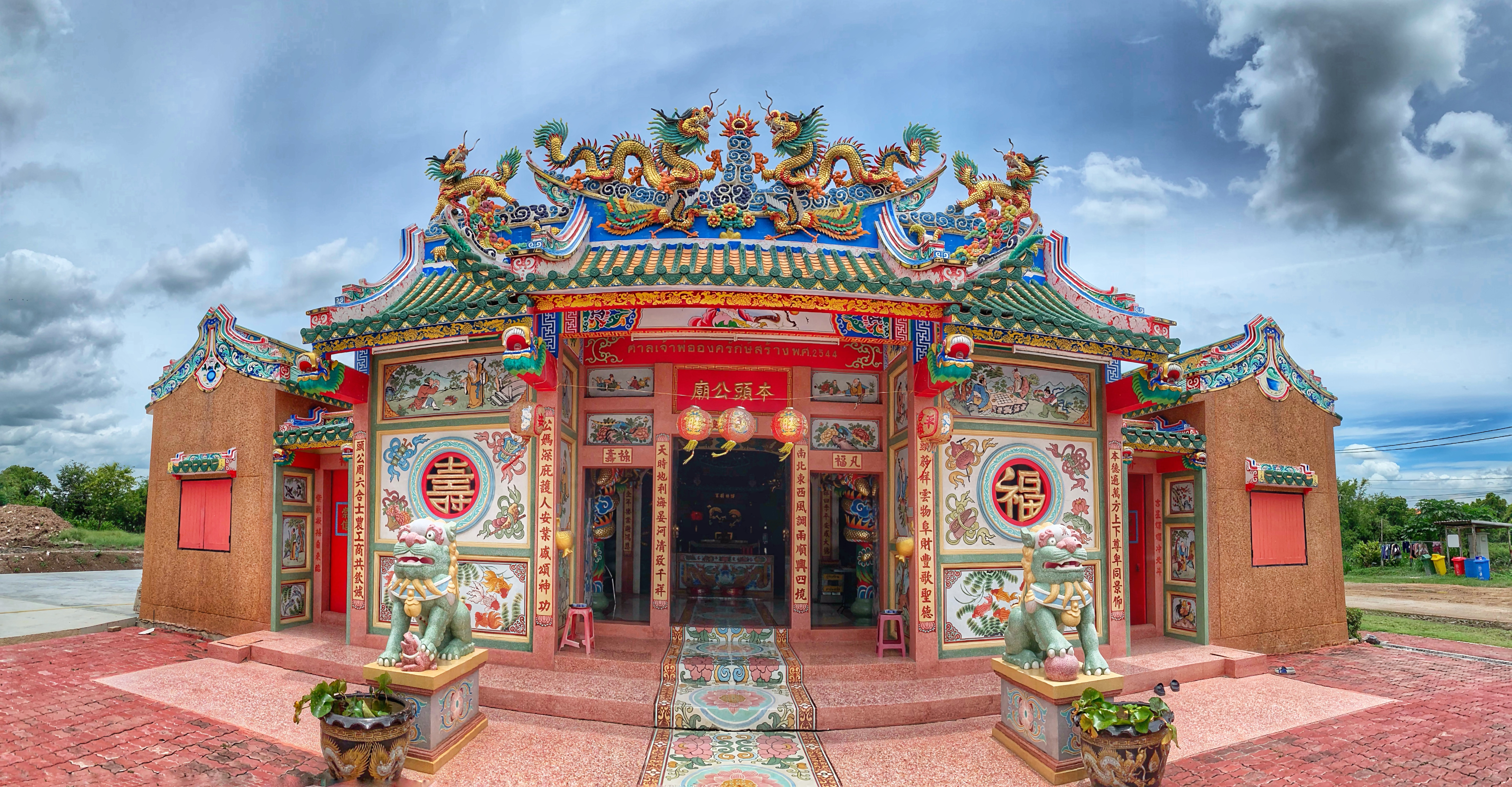 Chao Pho Ongkharak Chinese Tutelary Shrine, Ongkhrak, Nakhon Nayok